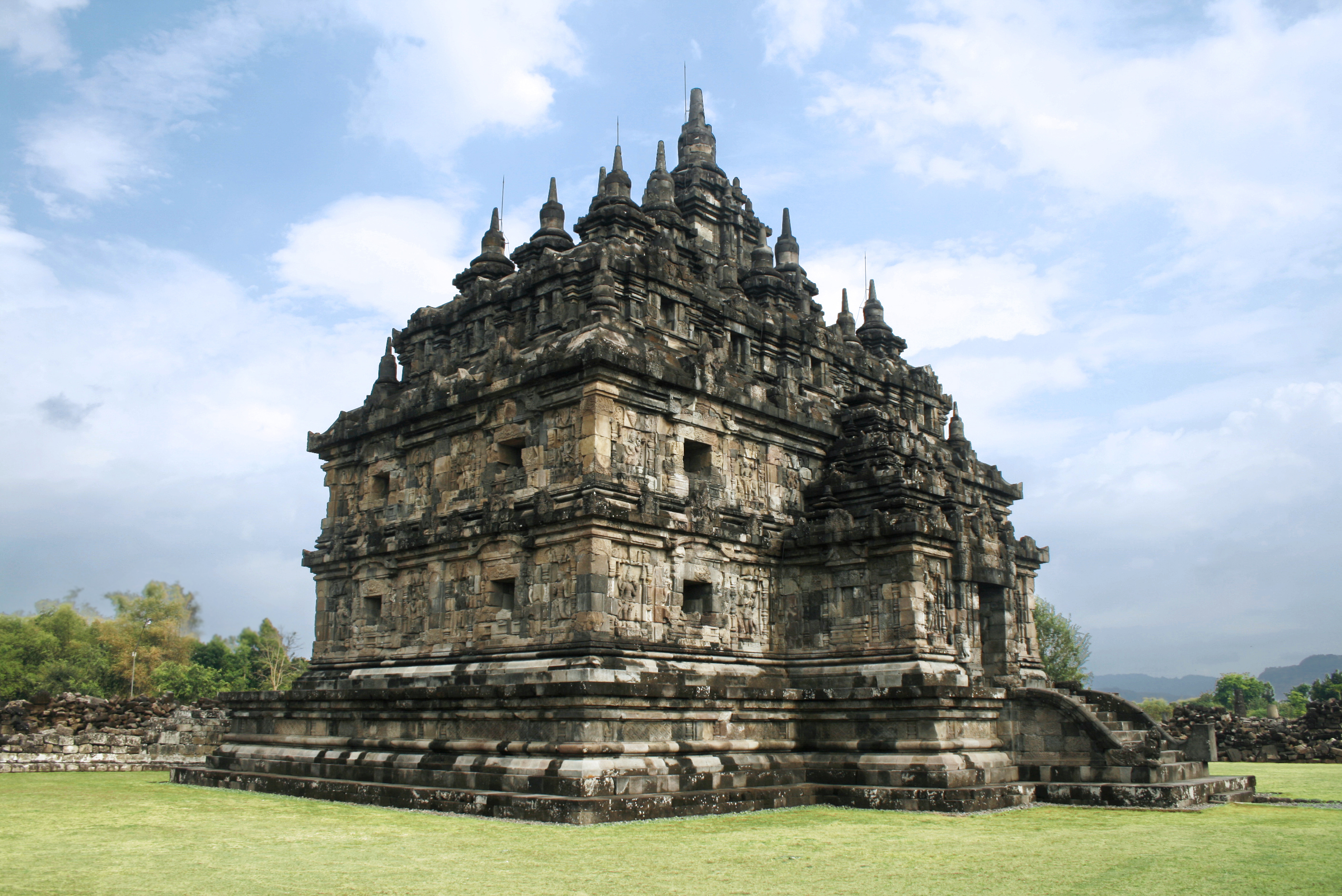 One of the twin main buddhist temple of Plaosan Lor, near Prambanan, Klaten, Central Java. 9th century Sailendra and Mataram Kingdom.